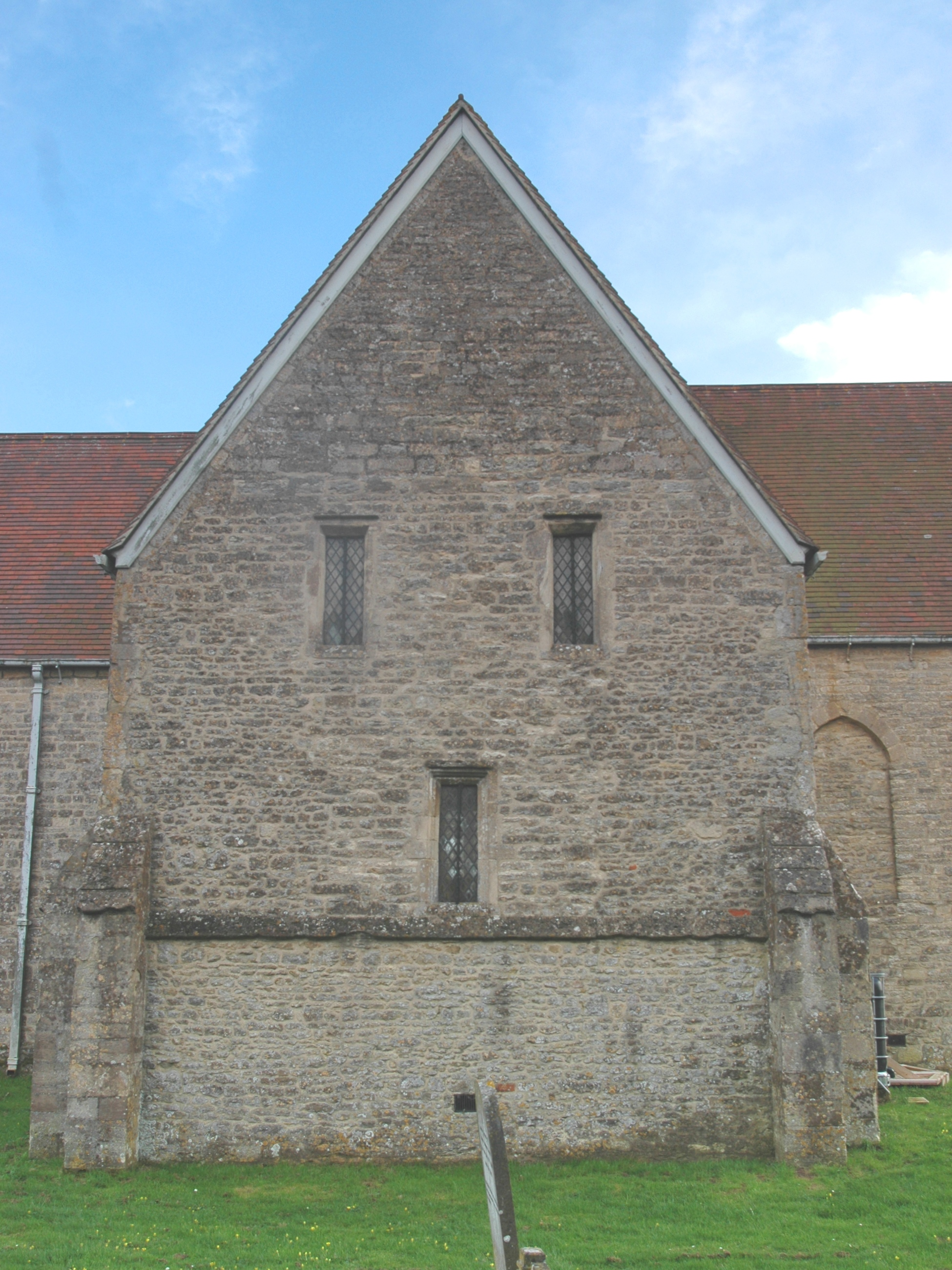 Church of England parish church of St Giles, Wendlebury: north transept, viewed from the north